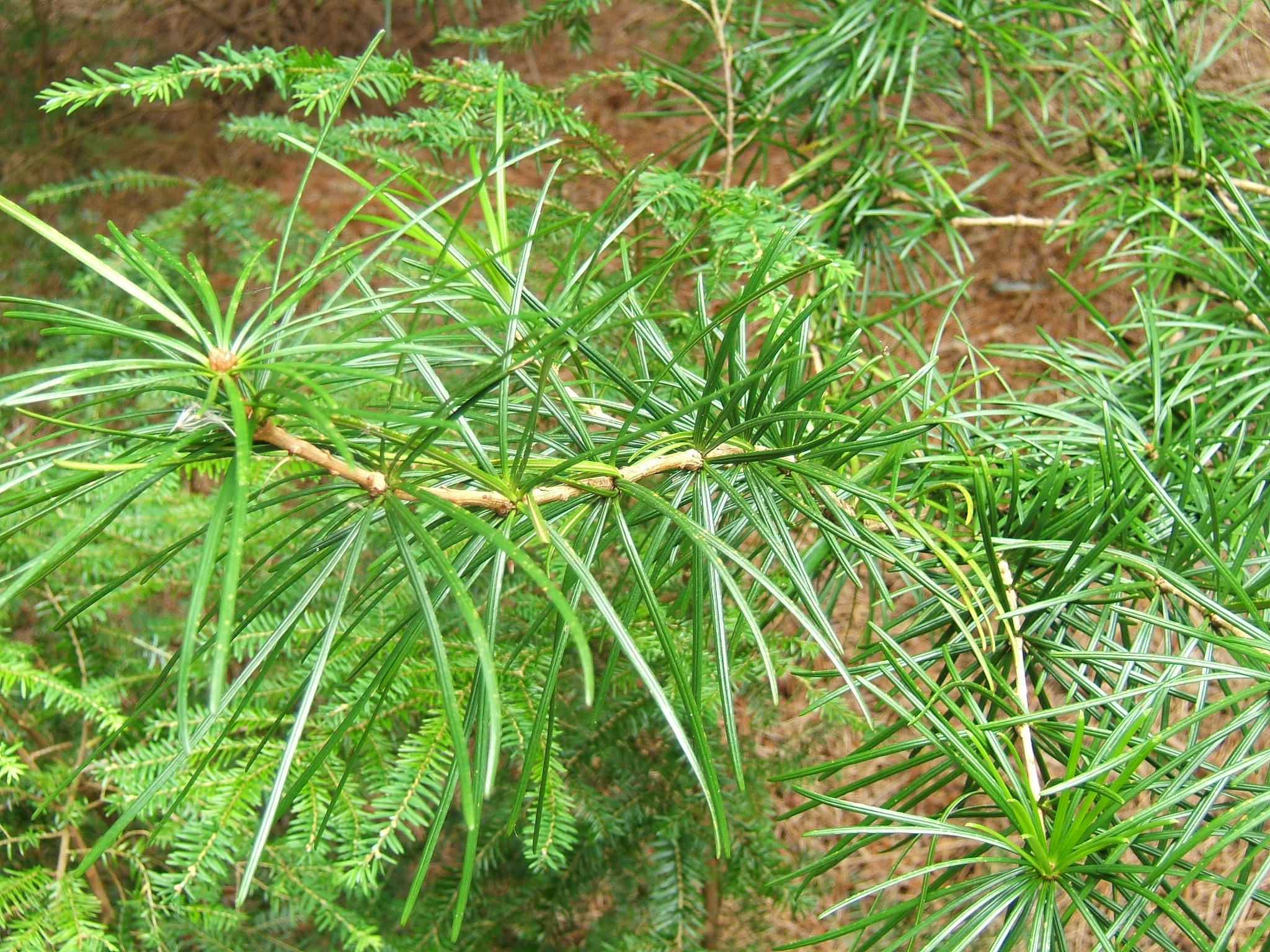 Sciadopitys verticillata foliage, cultivated at Kyloe Woods, Northumberland, UK. Foliage behind is Tsuga heterophylla.